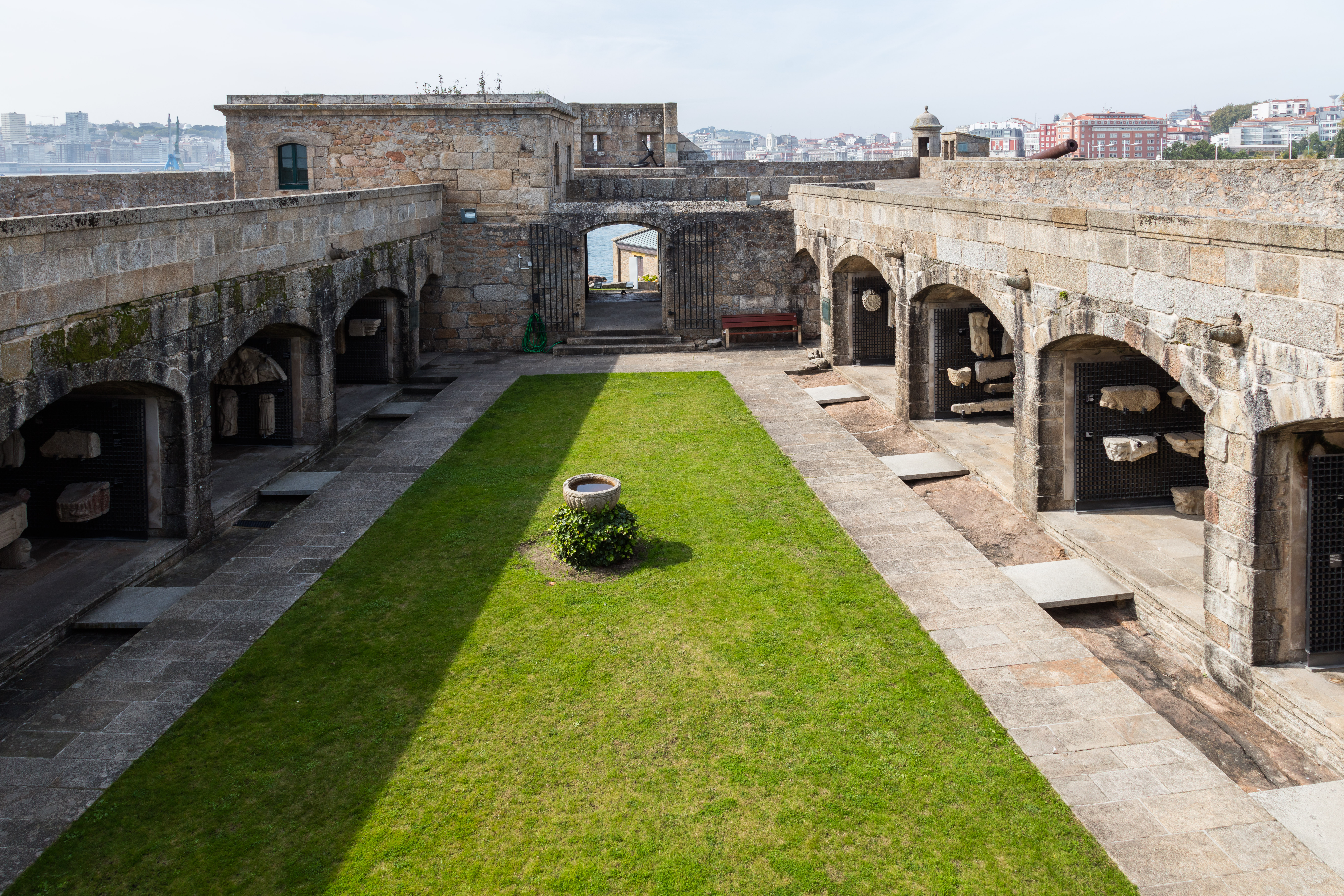 San Antón Castle, La Coruña, Spain